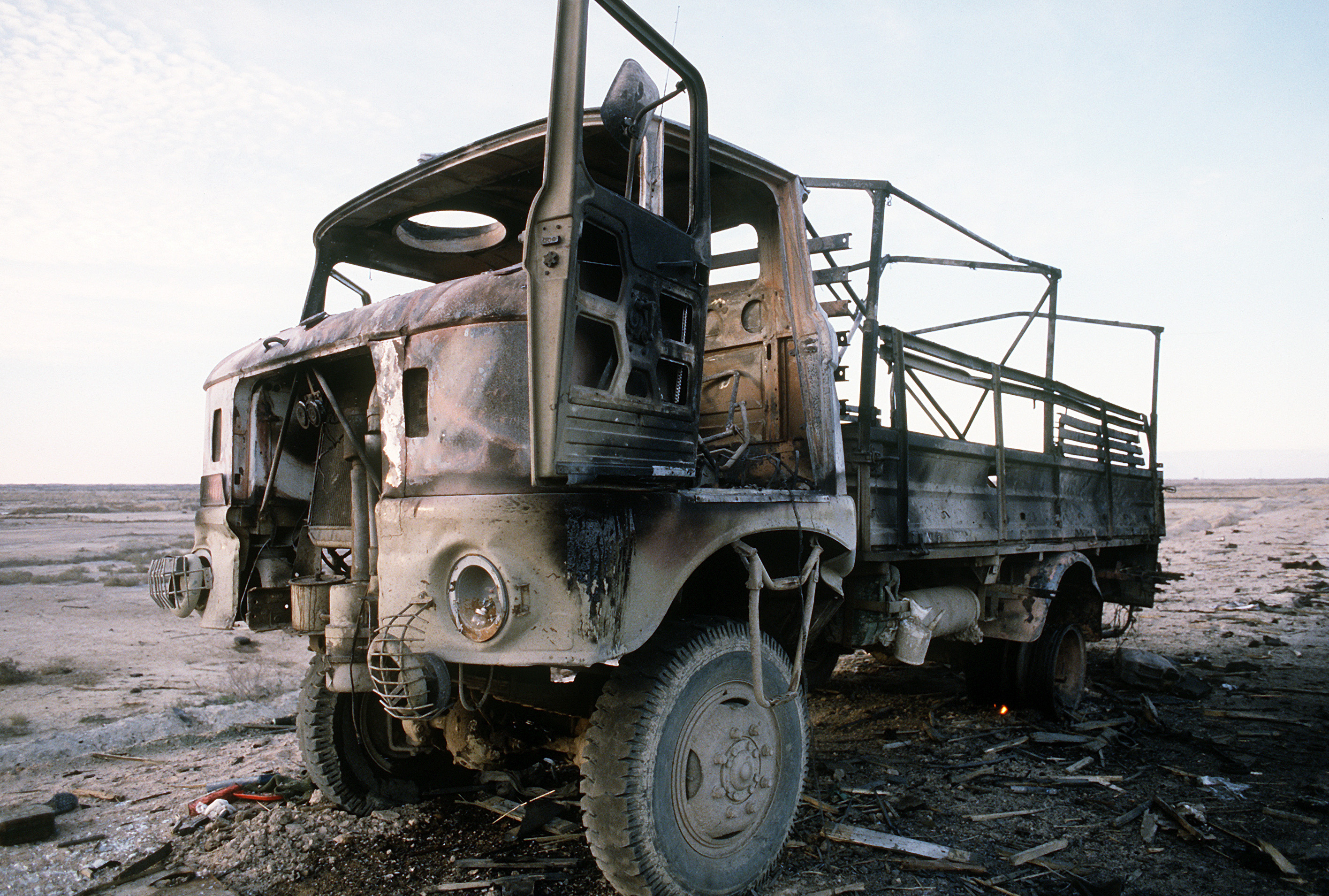 A demolished Iraqi W50 truck in the Euphrates River Valley in the aftermath of Operation Desert Storm.